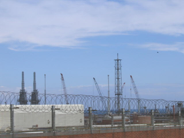 Bacton gas terminal. The gas terminal imports gas from the North Sea fields but they are also building a continental pipeline to import gas from Europe (or even Russia?). It serves the adjacent 228631